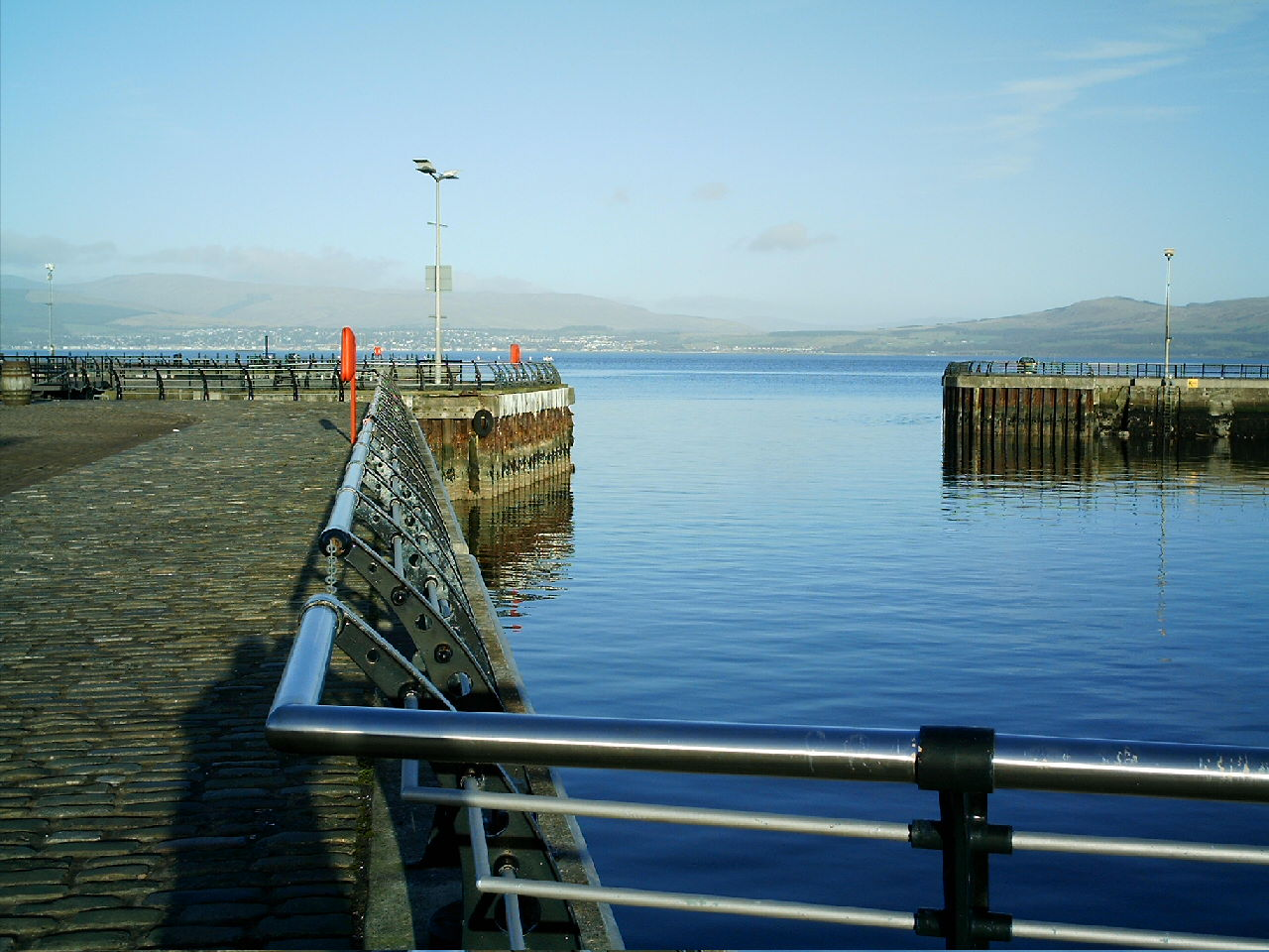 view from Greenock East India Harbour over the River Clyde. Victoria harbour is to the east, just to the right of this photograph, and Custom House Quay is to the left. Taken by myself, feel free to use